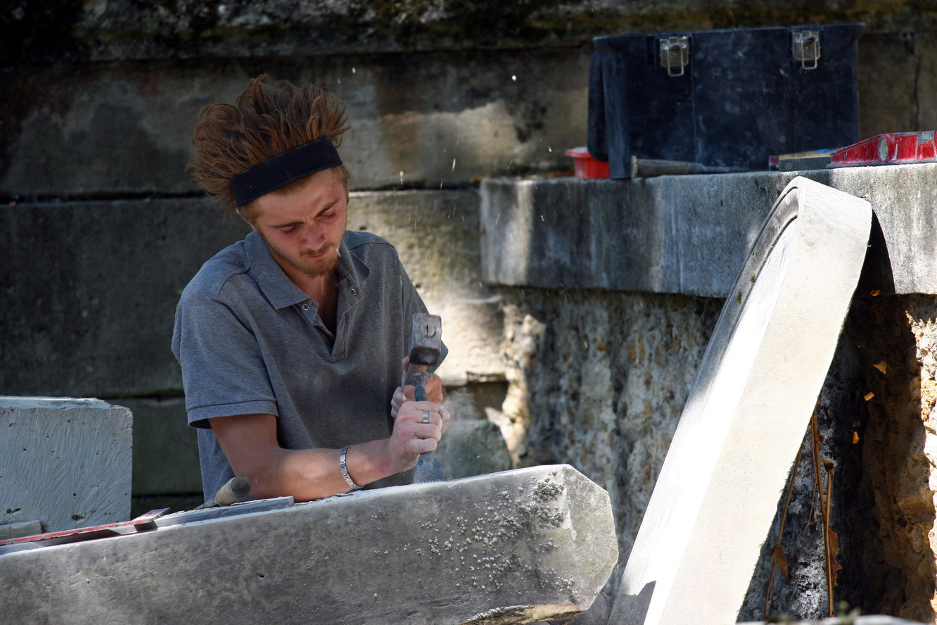 Sculptor in Pere Lachaise cemetery